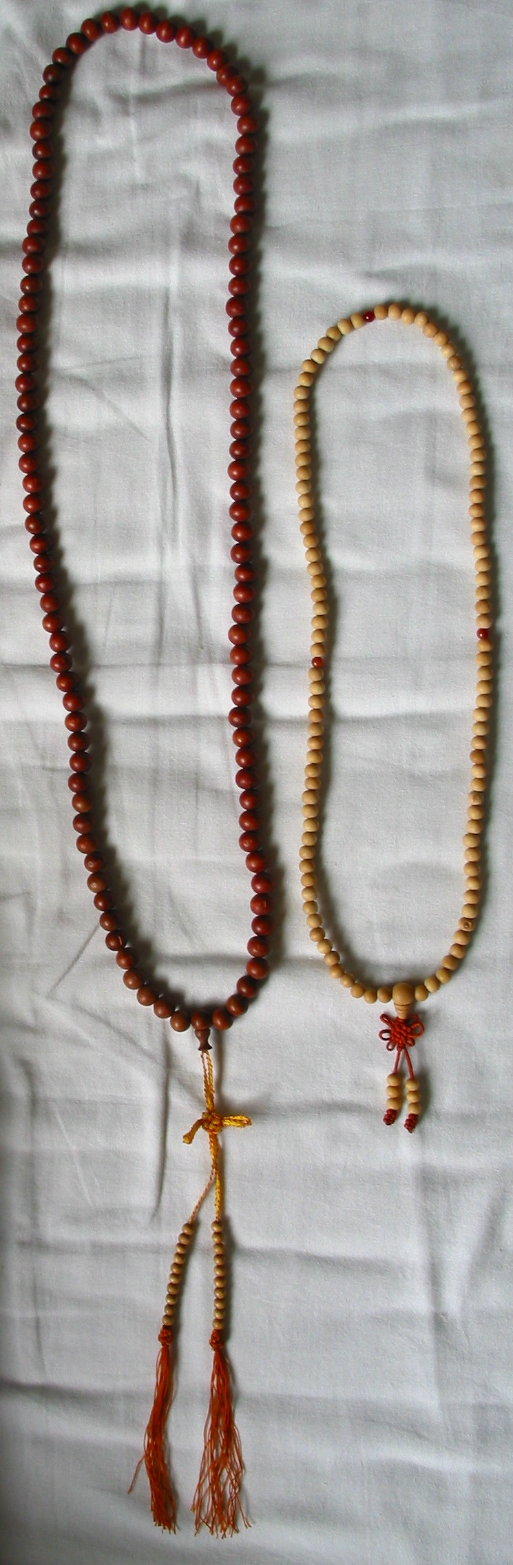 2 mala's